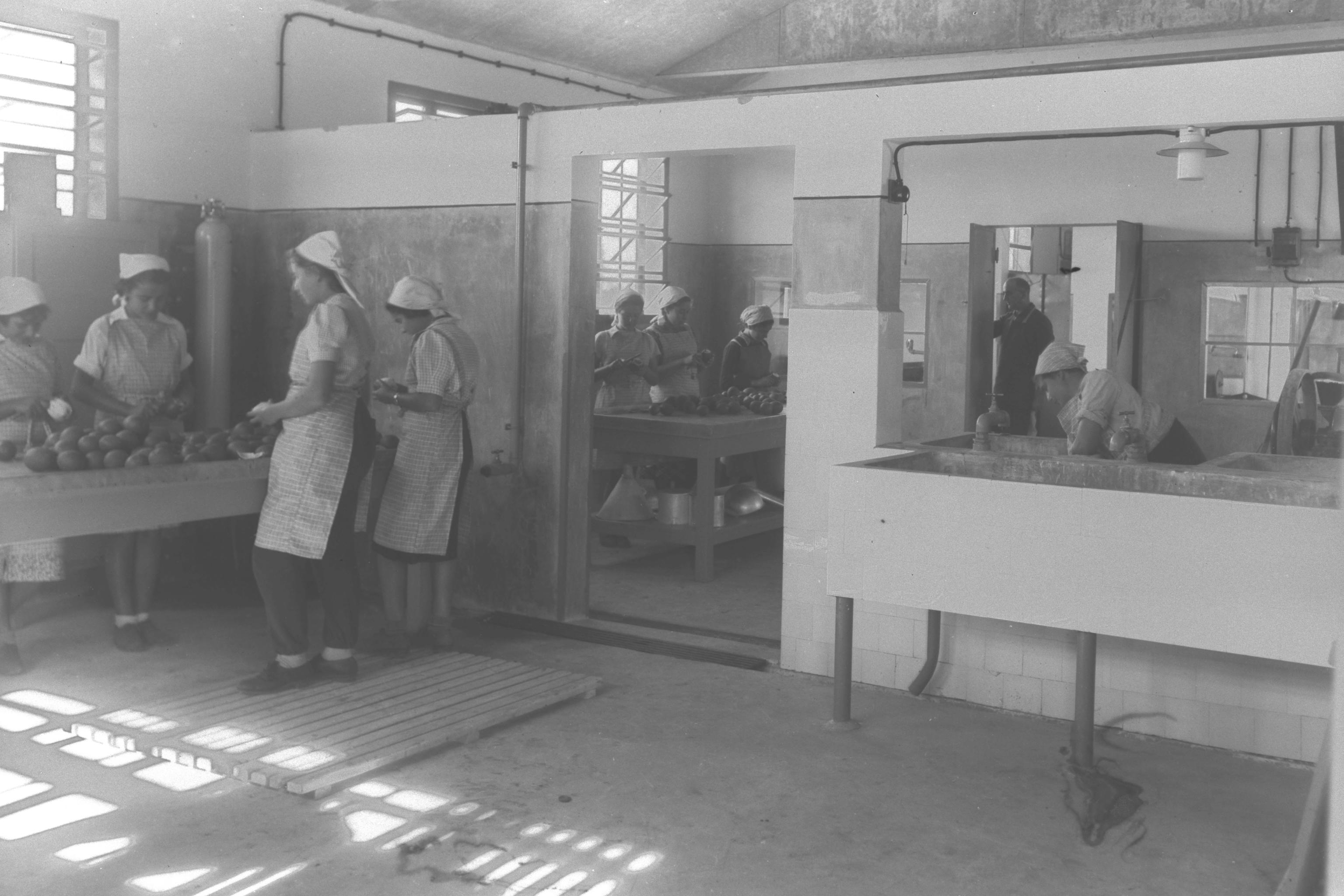 INTERIOR OF THE FOOD CANNING FACTORY AT KIBBUTZ GIVAT BRENER.